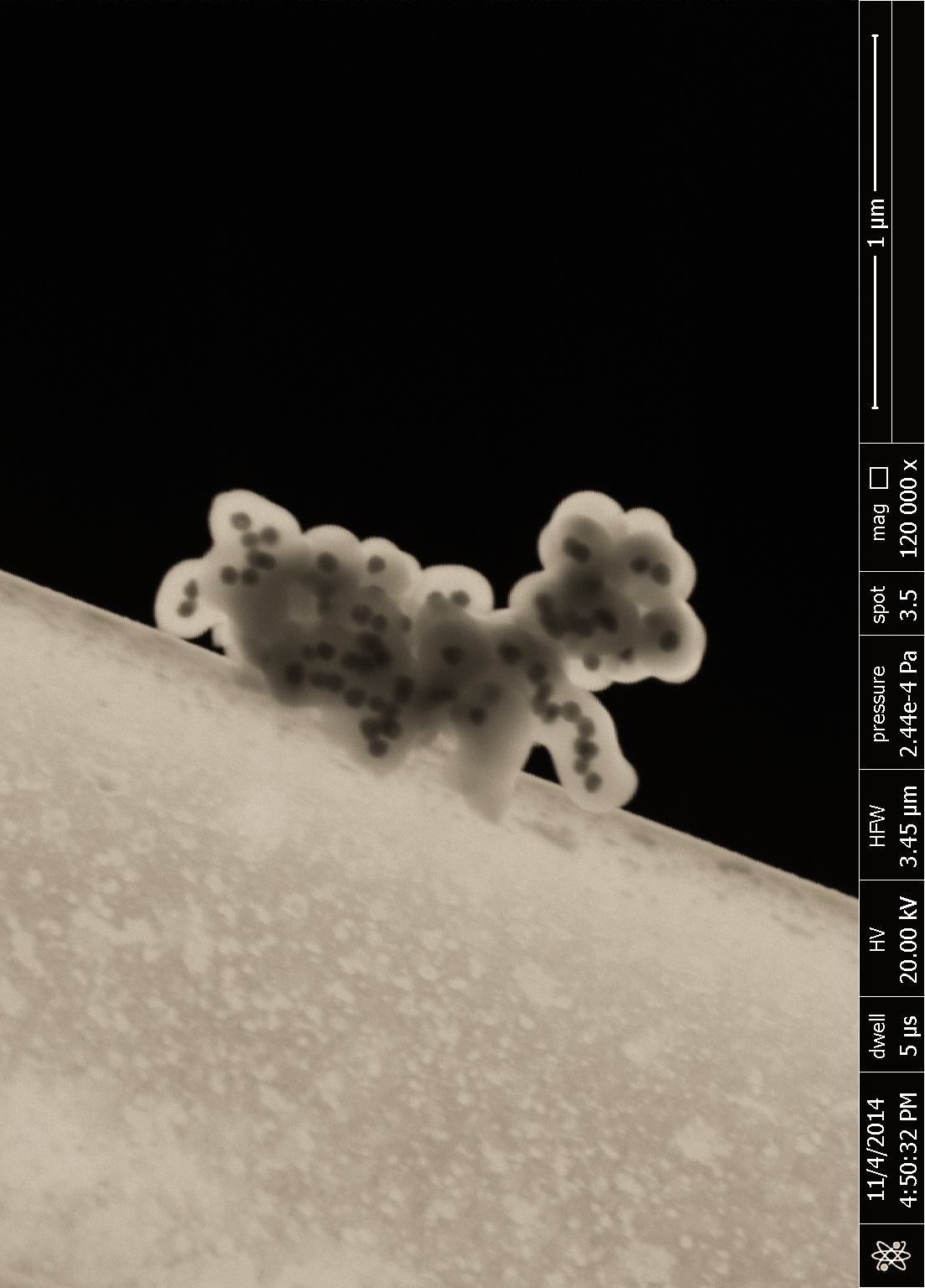 Scanning Transmission Electron Microscopy of a dog-shaped aggregate core-shell nanoparticles. The particles are composting of silver nanoparticles (dark core) and silica layer (light shell) and put on a TEM cupper grid. Magnification 120,000X